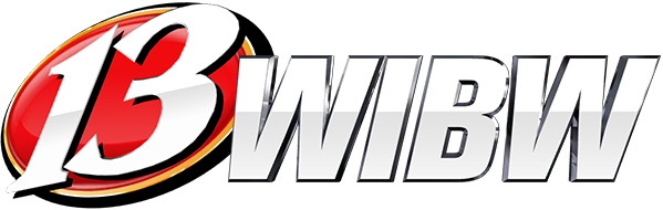 Official wibw logo